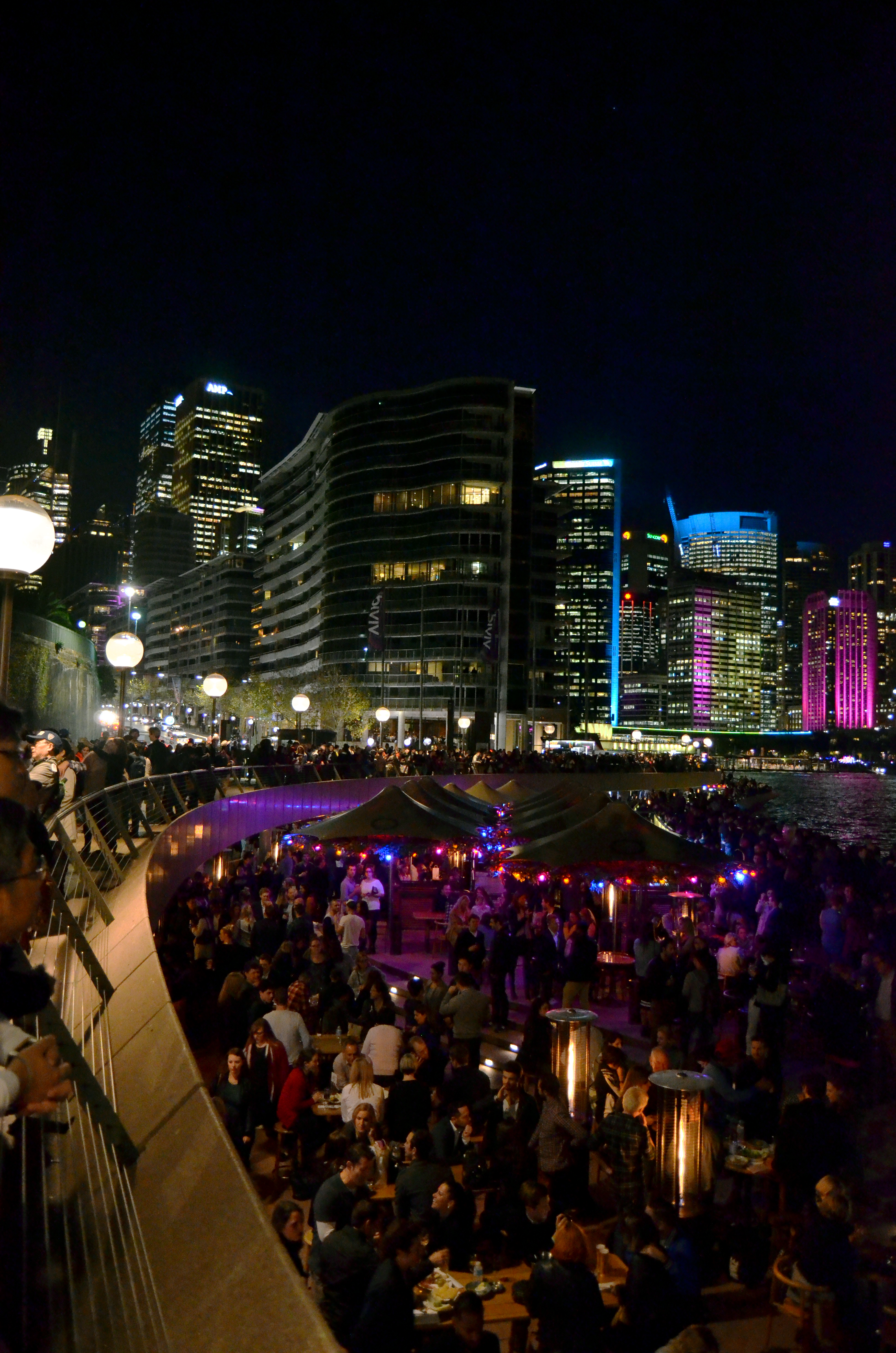 Visitors at Vivid Sydney 2015